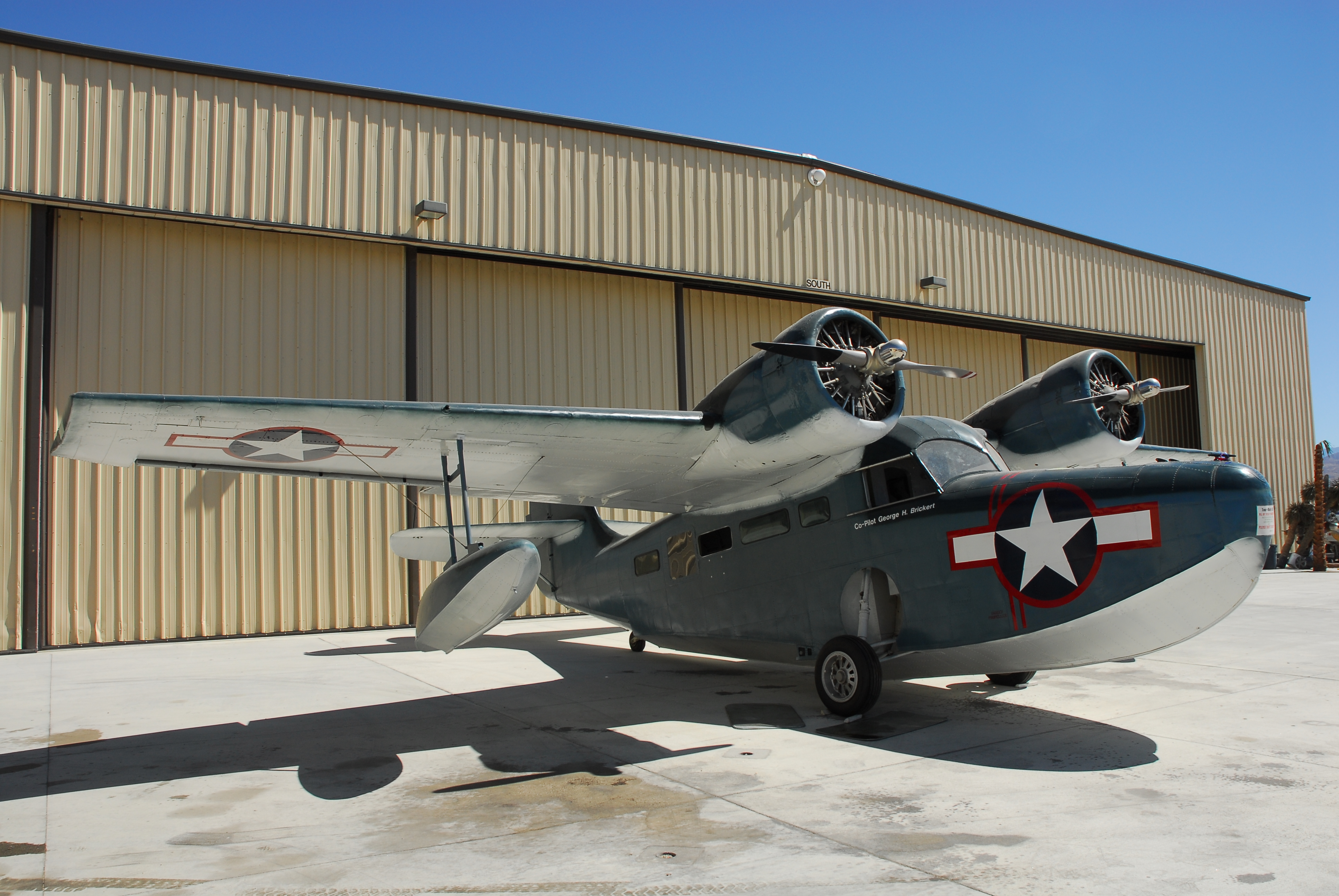 Ted Rufus Ross 22:59, 17 October 2006 (UTC) @ the Palm Springs air Museum I, the author of this work, hereby publish it under the following licenses